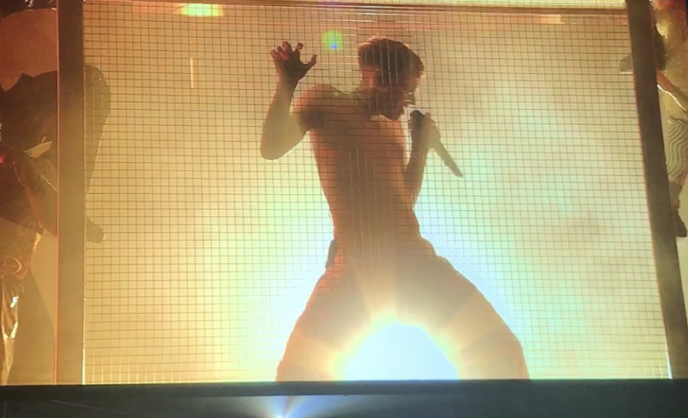 Olly perfoming worship at the London 02 Arean 5.12.18 during the last UK leg of their Palo Santo Tour